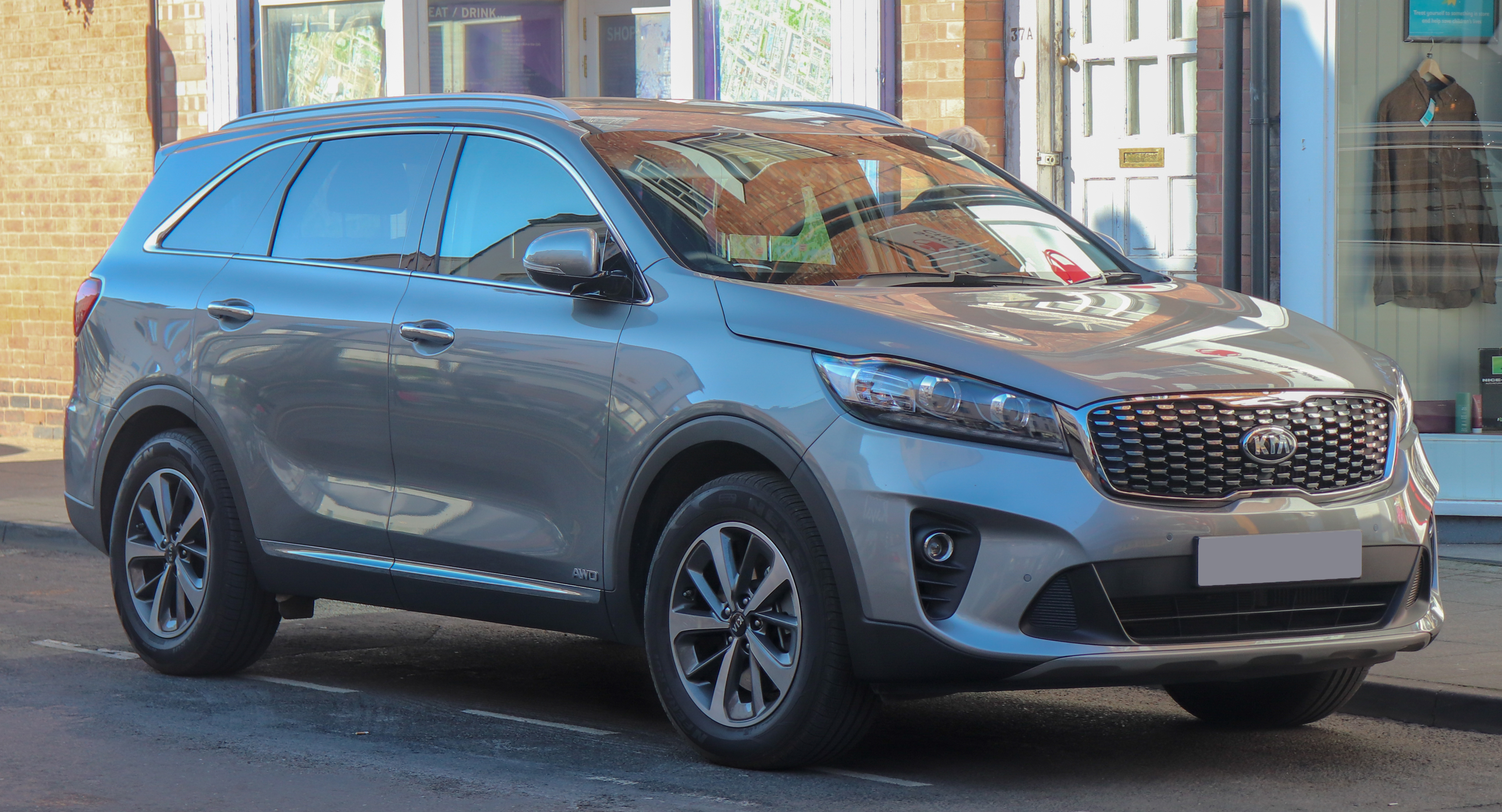 2018 Kia Sorento KX-2 CRDi ISG 4X4 2.2 Front Taken in Leamington Spa